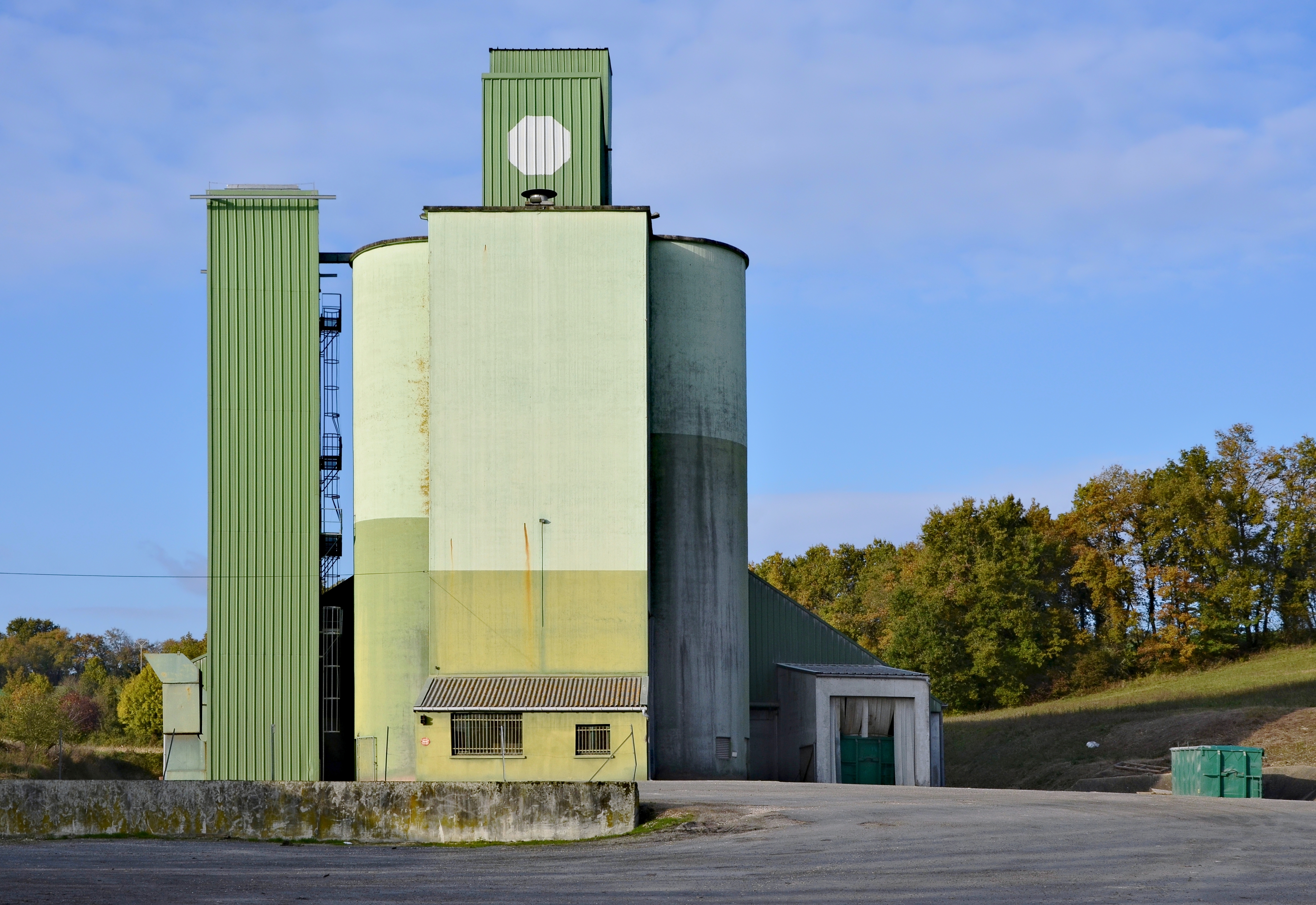 SW view of the silo from the road D 24, Salles-Lavalette, Charente, France.